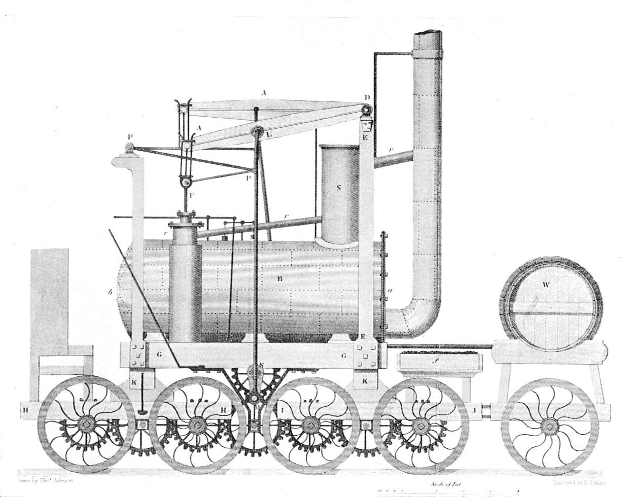 William Hedley's 0-8-0 Wylam locomotive (1815, Wylam Colliery) or William Chapman's Lambton locomotive (1814, River Wear colliery) ? This drawing was given by William Hedley to Nicholas Wood who published it in 1825 in his book A Practical Treatise on Rail-roads. It is supposed to describe a Wylam locomotive with the new wheel arrangement (~ 1815). In fact the drawn locomotive is almost identical with the River Wear locomotive designed by William Chapman in 1814. It was the first 8 wheel locomotive and was probably taken as an example by Hedley to make his originally 4 wheel locomotive (Puffing Billy, 1814) more compliant with the weakness of period rail-roads.